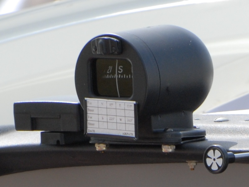 Panel for Altitude Alert; croped from Image:AT3-R100_-_AirExpo_Muret_2007_0011_2007-05-12.jpg